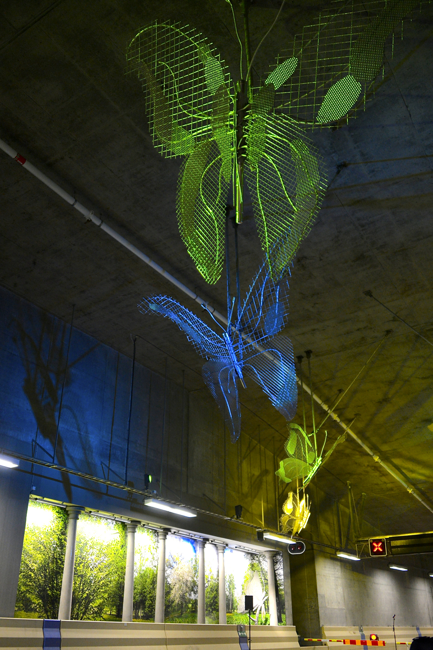 The artwork Meadow of Ann-Margret Fyregård in Northern Link in Stockholm on 30 nov 2014.